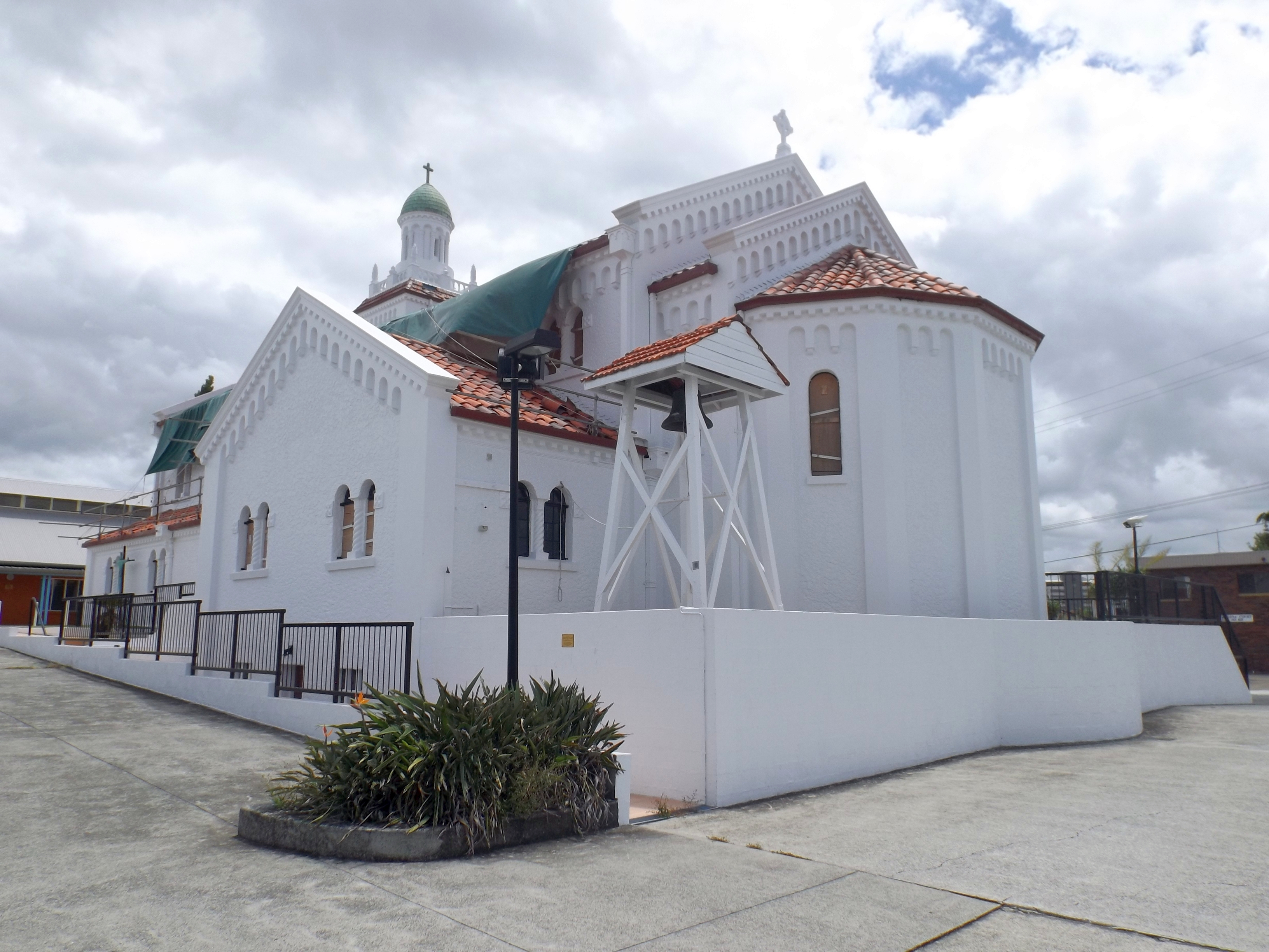 Photo of the Holy Trinity Anglican Church, Woolloongabba, Brisbane, Queensland, Australia. Tarps cover the hail damaged roof caused by the November 2014 hailstorm.